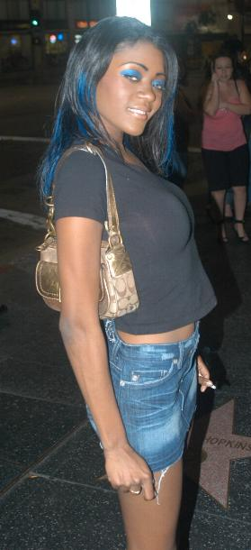 Jenna Brooks at Video Team's Alexis Amore Party at Basque, February 4 2006